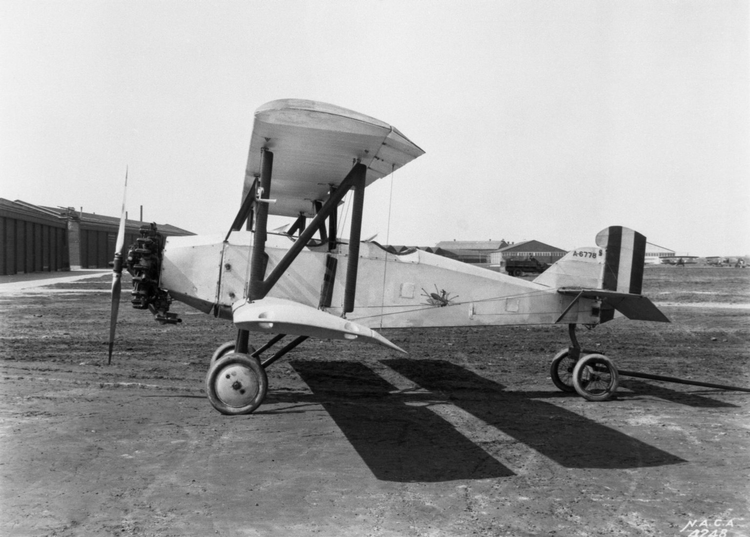 Boeing NB-2